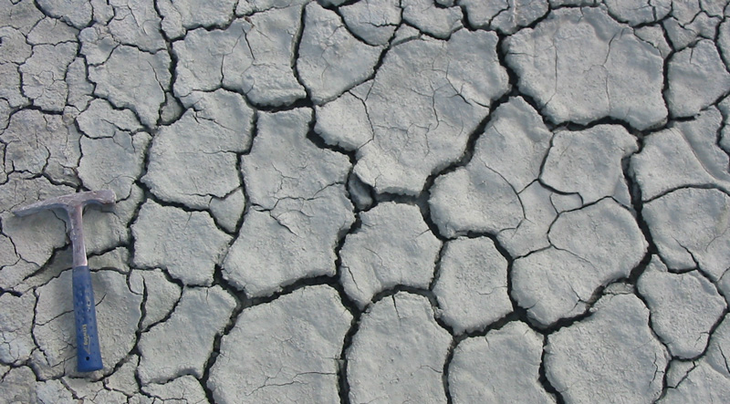 Modern desiccation cracks in blue clay derived from the early Cambrian Lontova Formation near Kunda in Estonia.